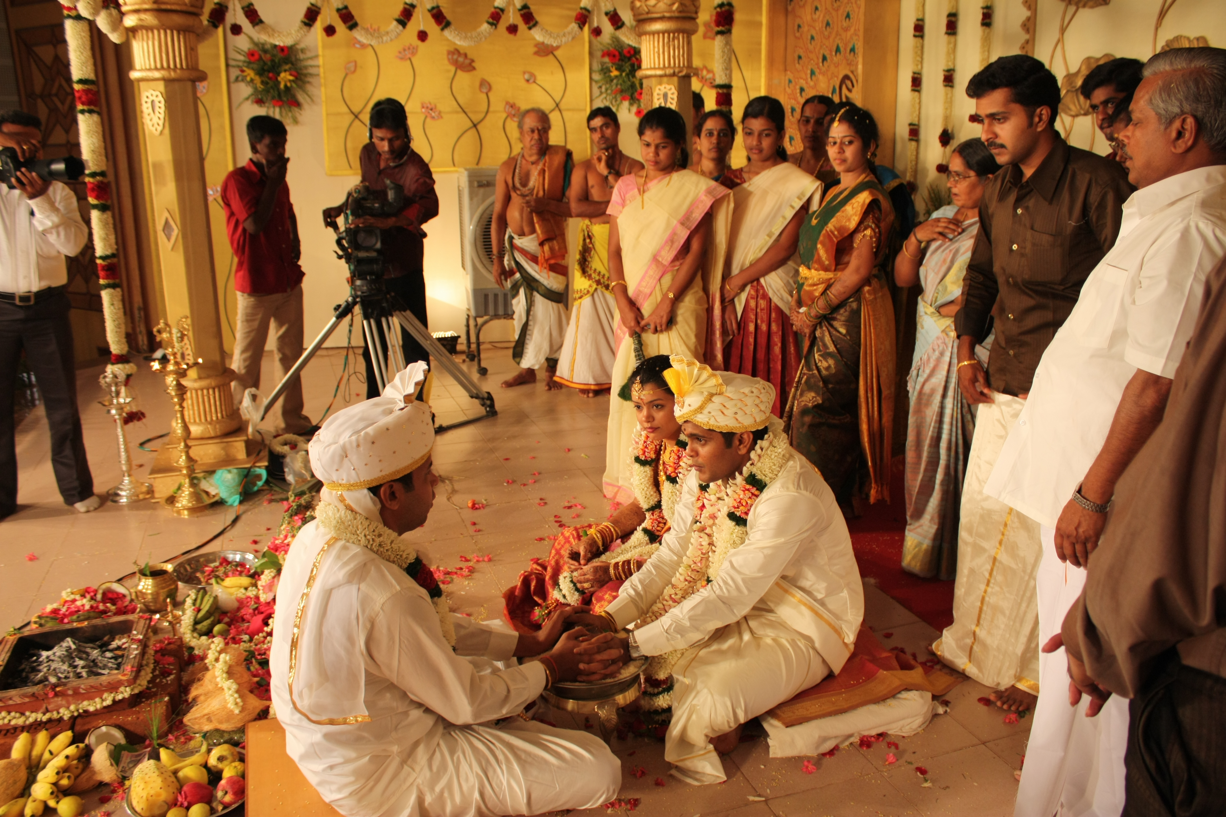 Hindu Marriage